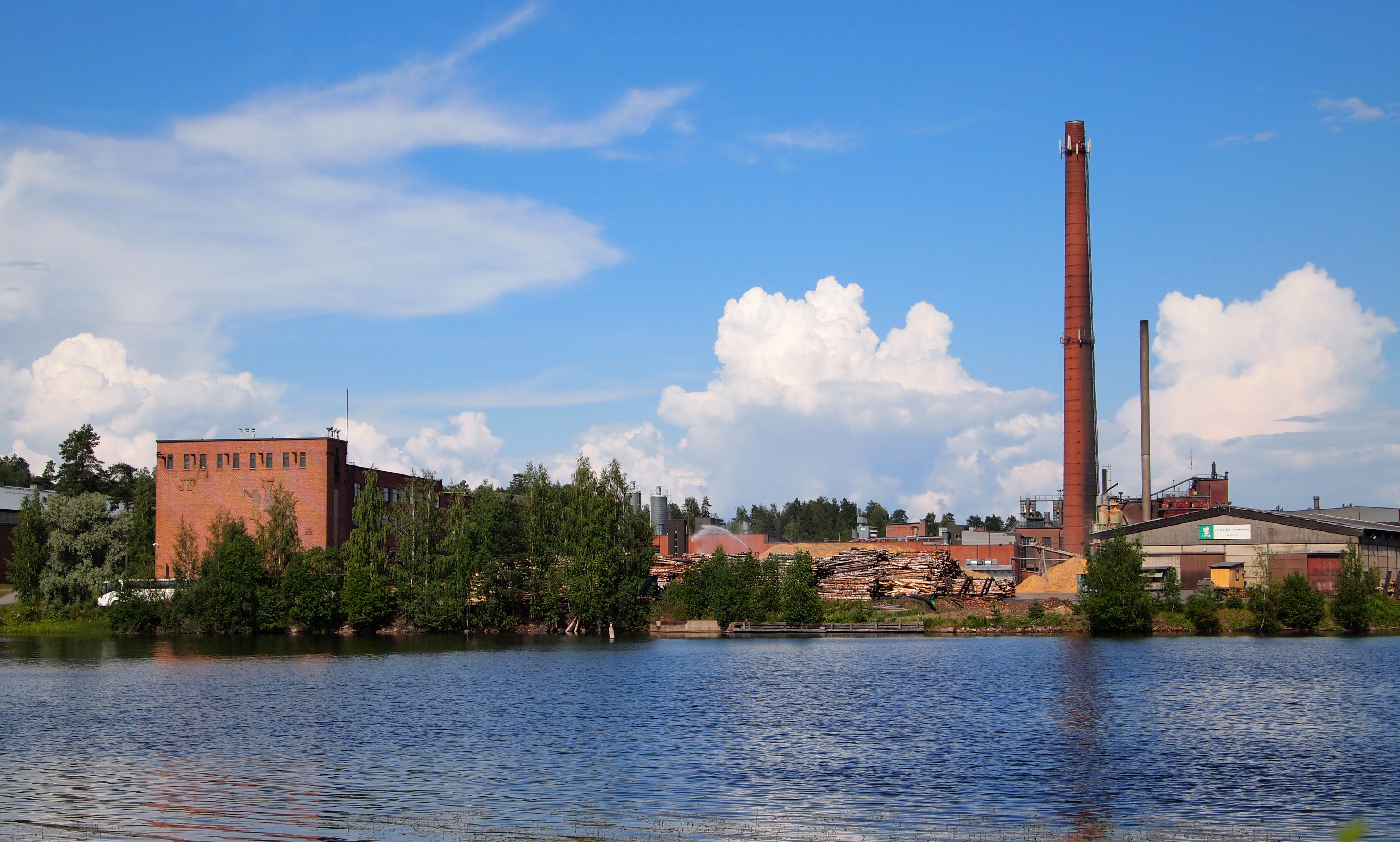 Plywood mill of Jyväskylä in Säynätsalo area. On the front is lake Päijänne.